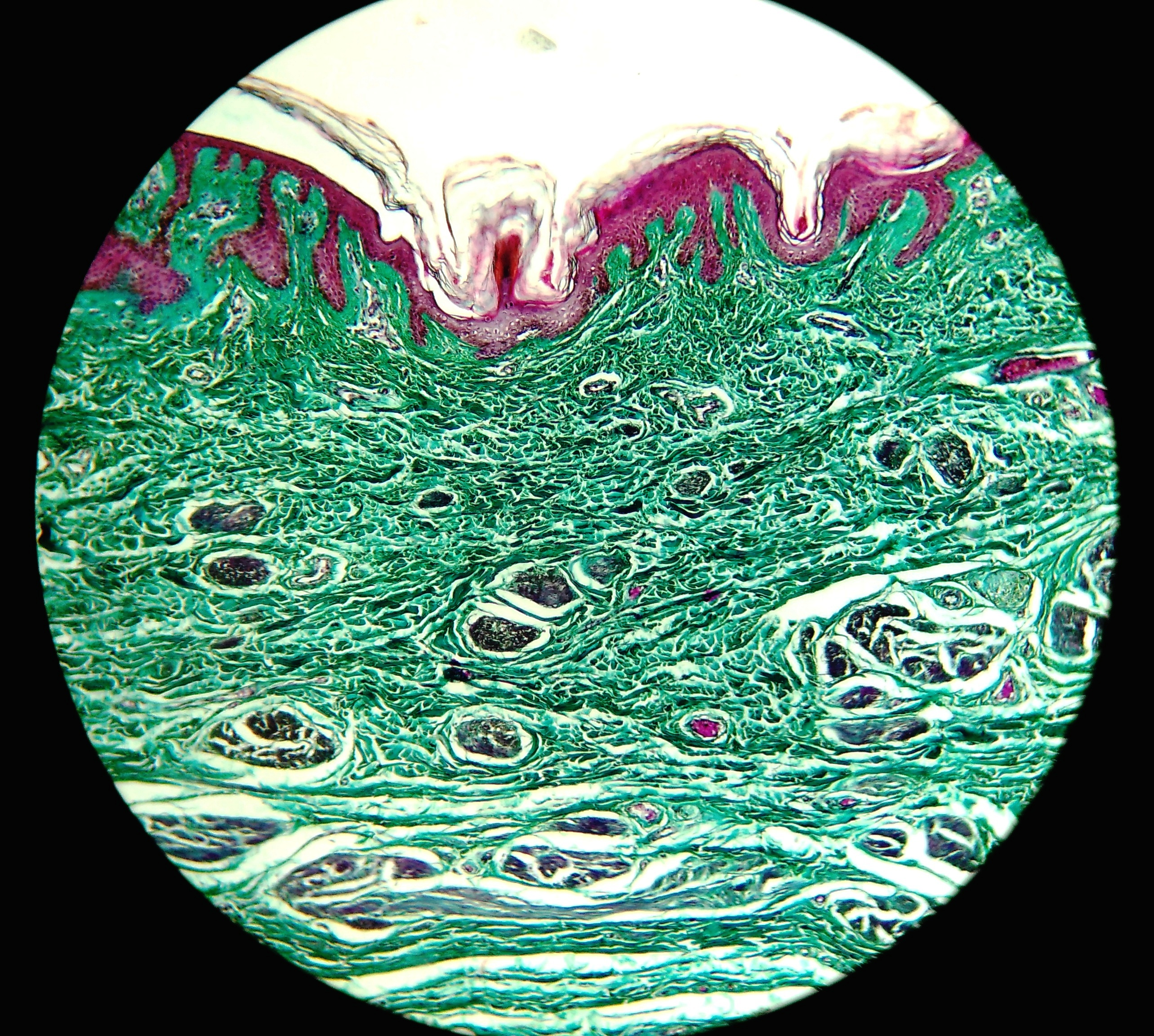 Dense irregular connective tissue - trichrome stain